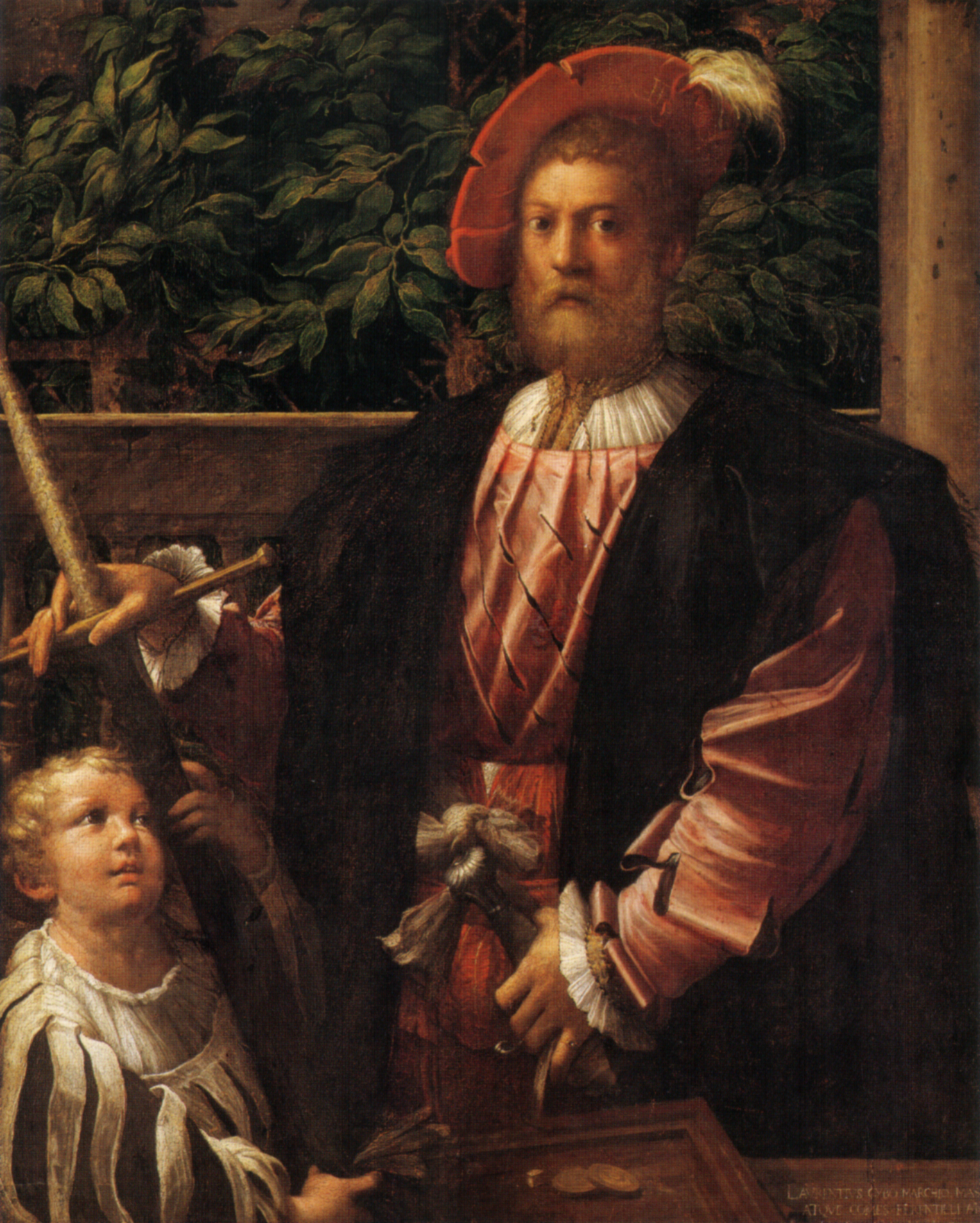 Portrait of Lorenzo Cybo